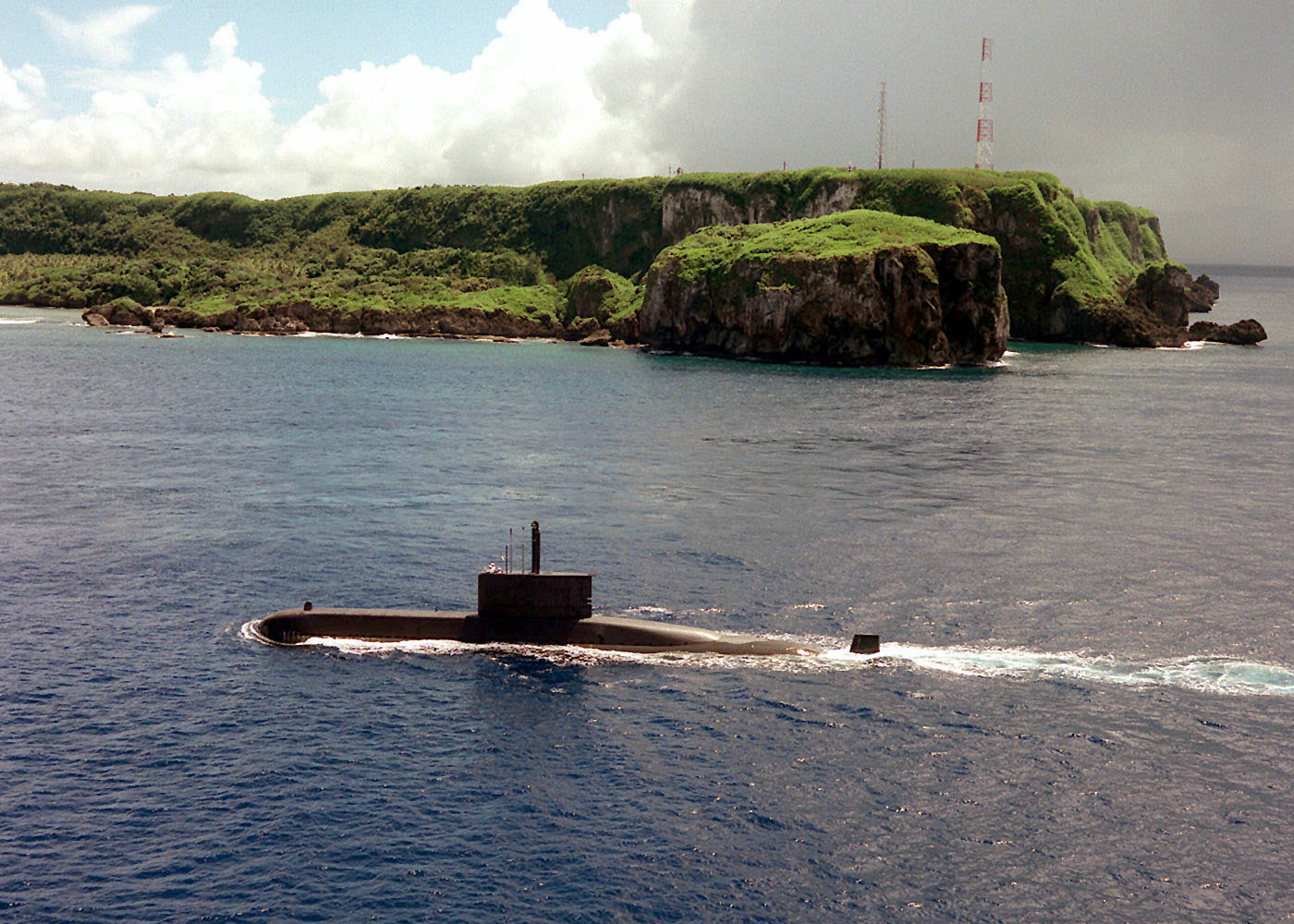 961018-N-7159C-001An aerial port beam view of the KOREA SOUHT REPUBLIC CHANG BOGO (Type 209) CLASS (1200) submarine CHOI MUSON (SSK 063) as it enters into Apra Harbor, Guam. The CHOI MUSON along with her crew of 33, is the first South Korean submarine to visit the Island of Guam. Photographer's Name: P02 REX CORDELL, USN Location: APRA HARBOR Date Shot: 10/18/1996 Date Posted: unknown VIRIN: 961018-N-7159C-001